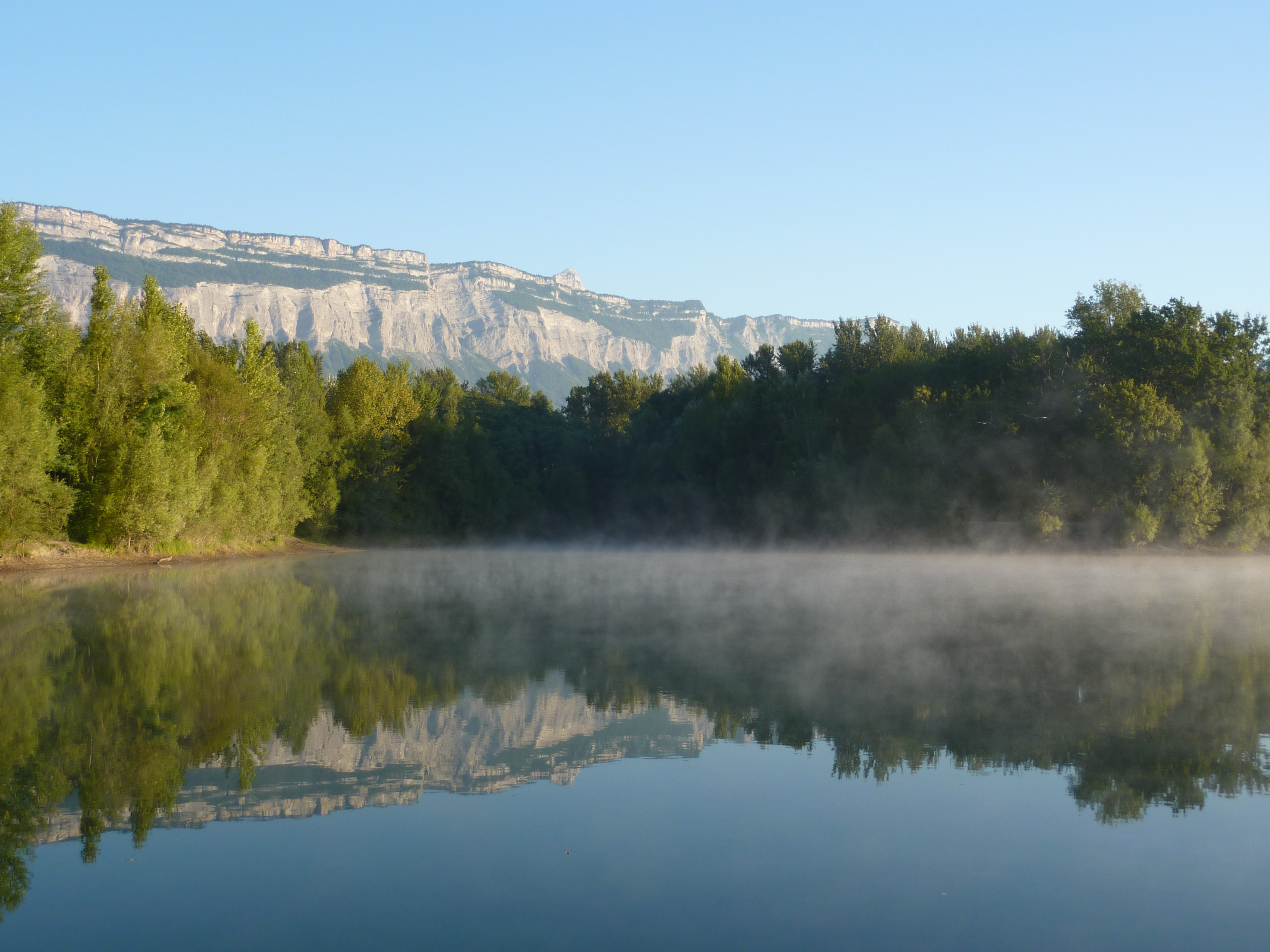 The north-east bank of the lac de la Taillat at early morning with the Mont Saint Eynard in the distance, Meylan, Isère, France